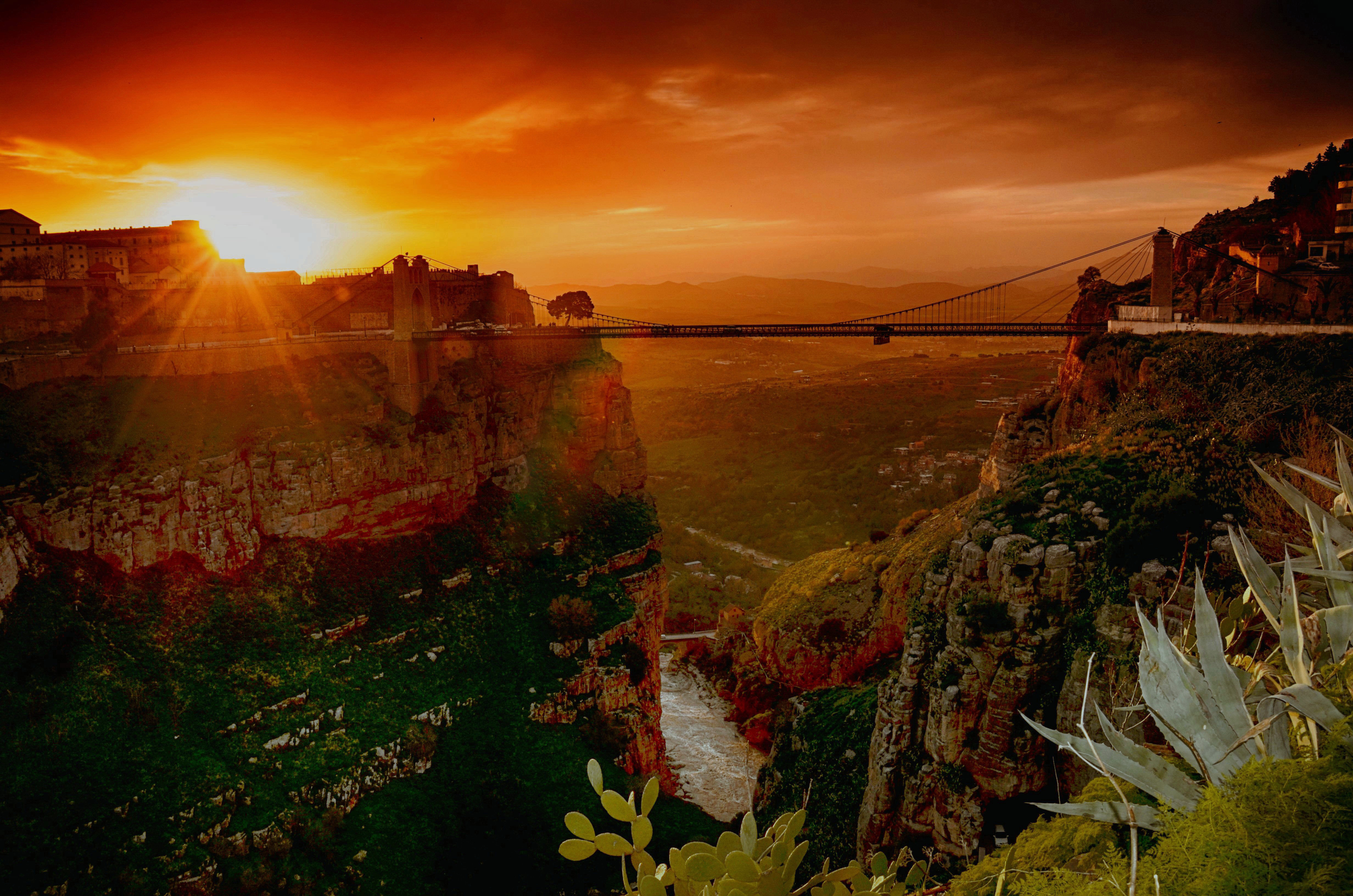 Constantine, Sunset on the bridge Sidi M'Cid and the Rhummel Gorges